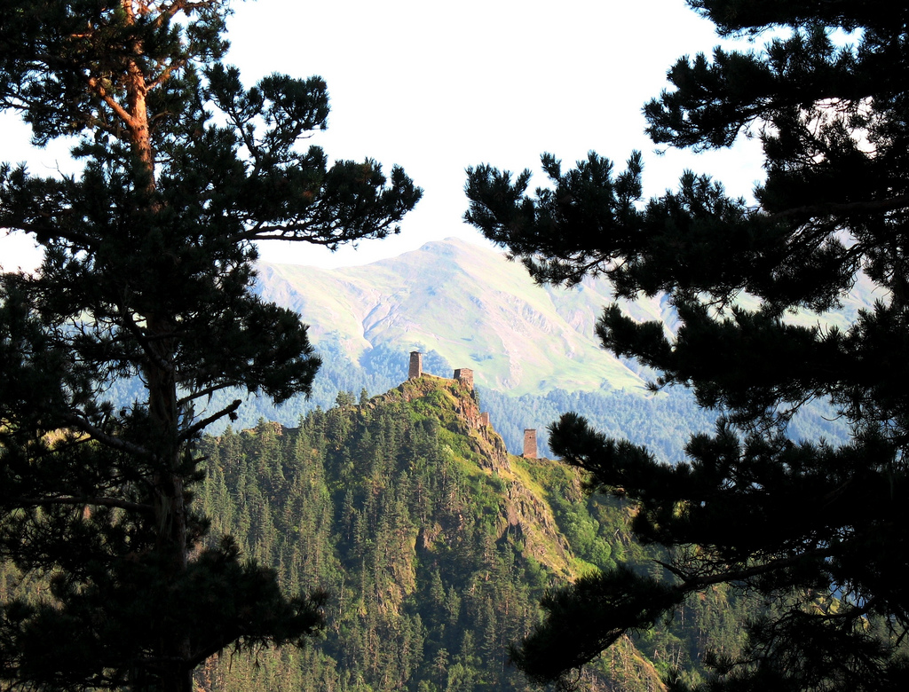 Keselo. Trees are Pinus sylvestris var. hamata.